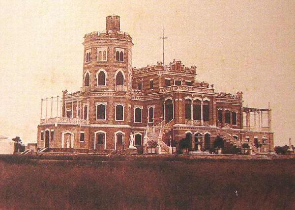 The former Windsor Palace in Pathum Wan, Bangkok, Thailand, built to serve as residence of Crown Prince Vajirunhis. It served as part of Chulalongkorn University before being demolished in 1935.